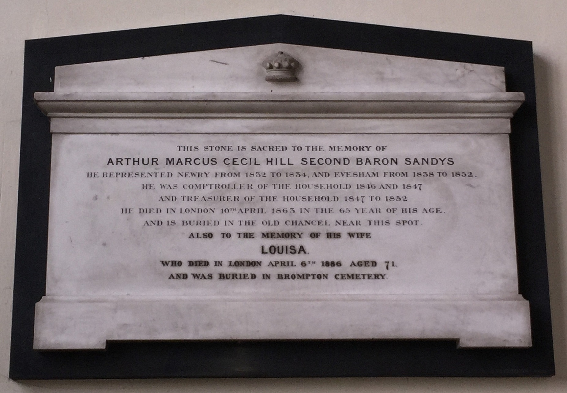 Saint Andrew's church, Ombersley, Worcestershire: Sandys Hill memorial on the south wall of the chancel